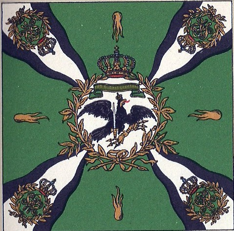 Flag of the Line Infantry regiments of the XXO. Army Corps execpt the rifleman